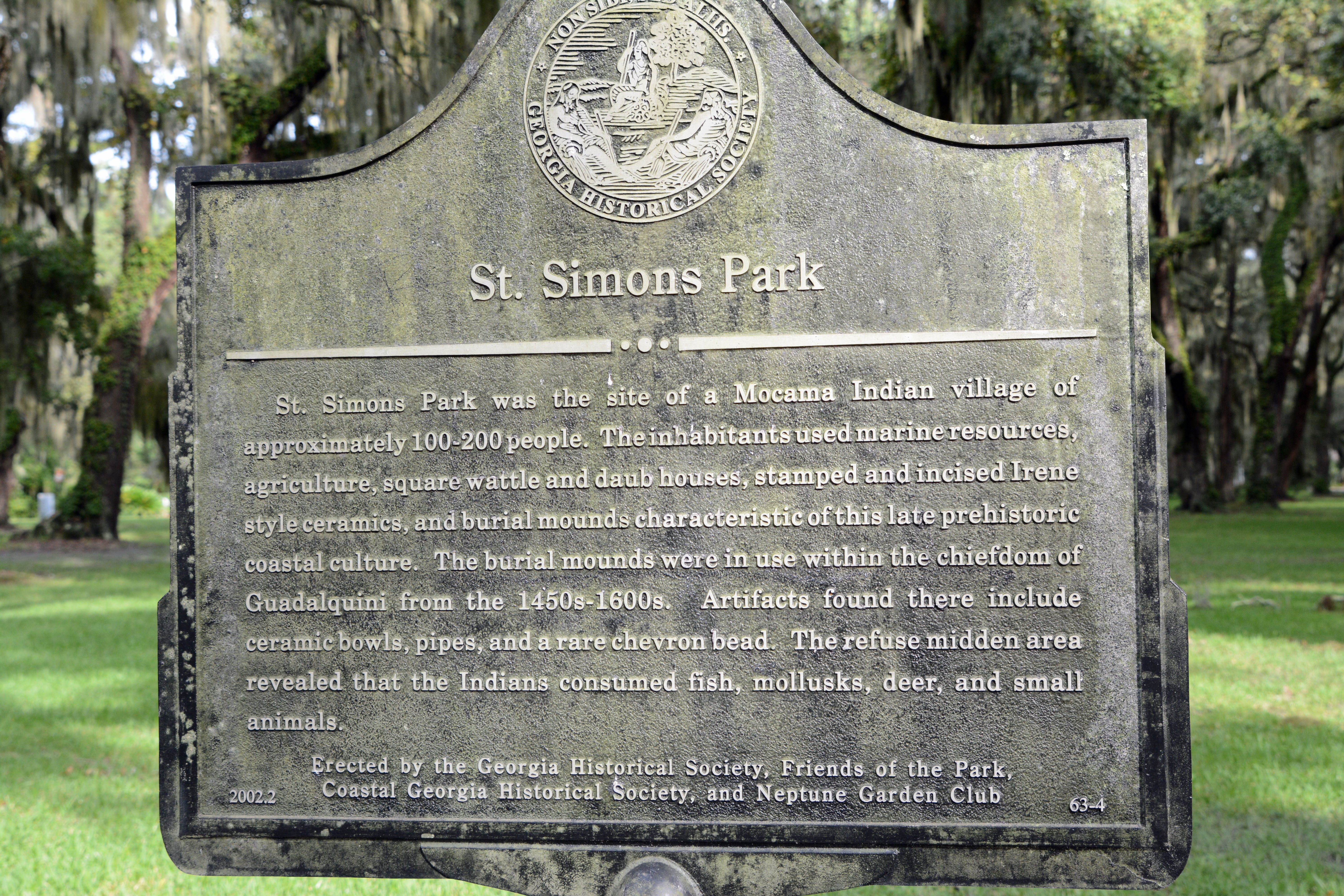 St Simons Park marker, off Mallery Street, St. Simons, Georgia, US